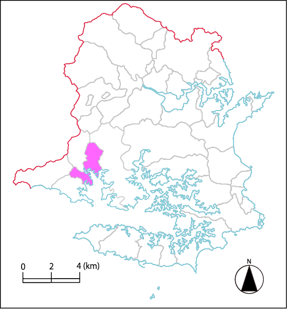 This is the map of Hamajimacho-Shioya, Shima, Mie, Japan.